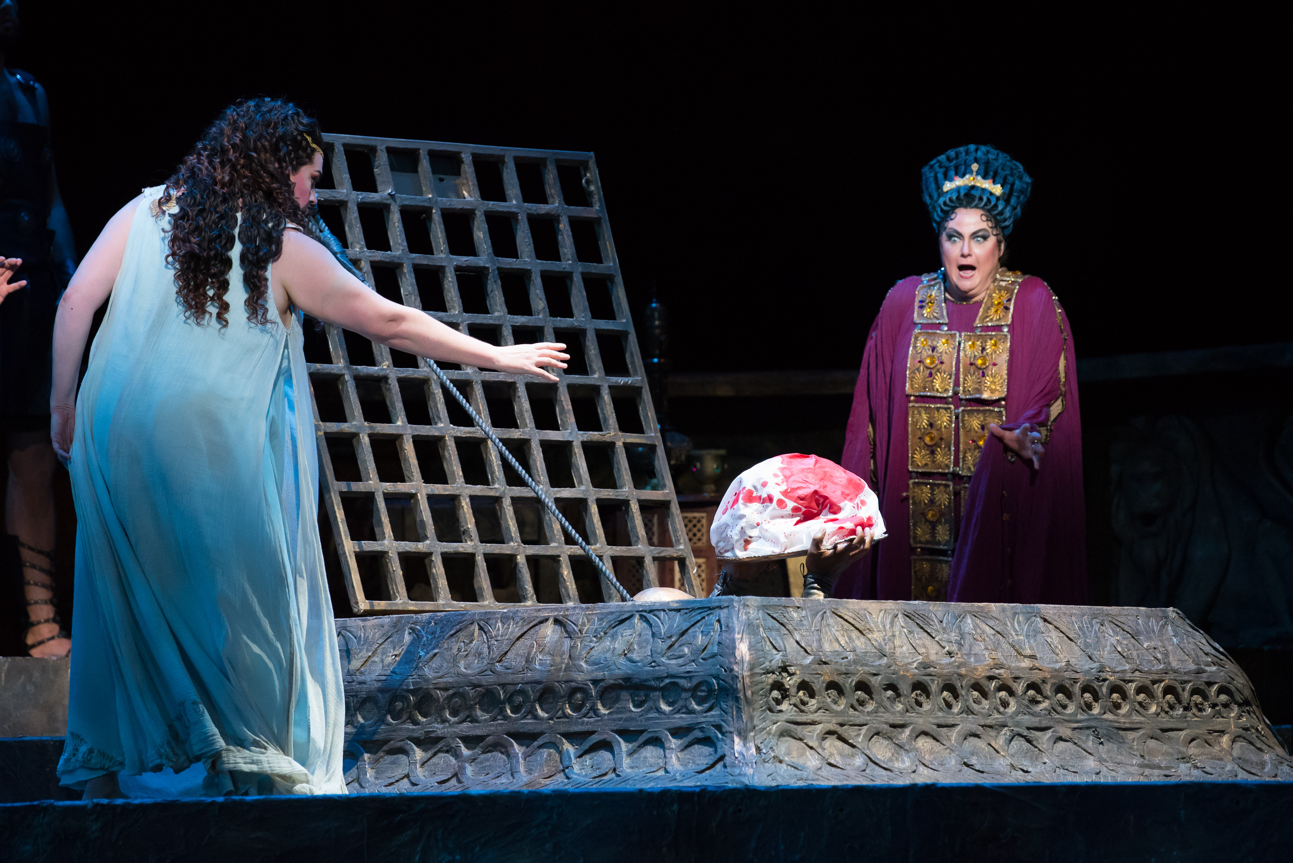 Salome (Melody Moore), Herodias (Elizabeth Bishop) Photo Credit Chris Kakol